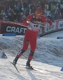 Norwegian cross-country skier Sindre Bjørnestad Skar at Lahti Ski Games 2014.